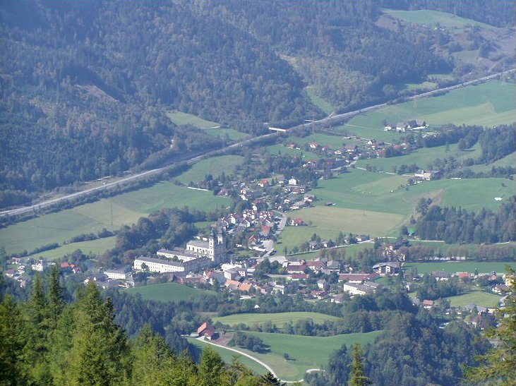 Spital am Pyhrn